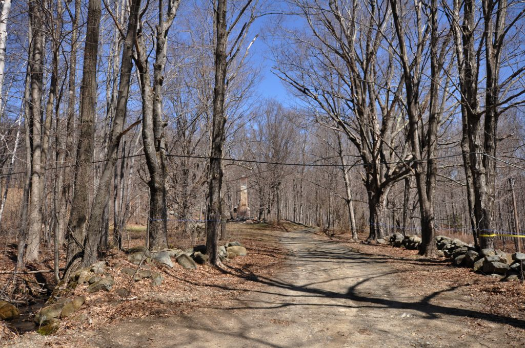 Remnant of the Burpee Farm house, Dublin, New Hampshire